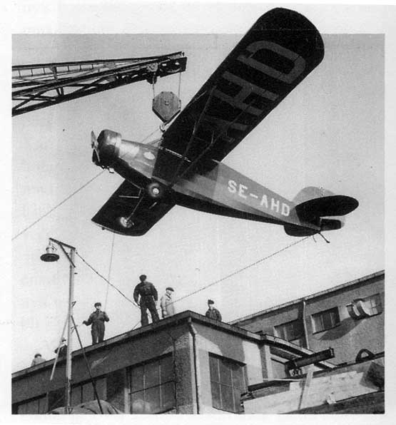 Aircraft manufactured by Shipbuilding Yard Gotaverken, Gothenburg 1938